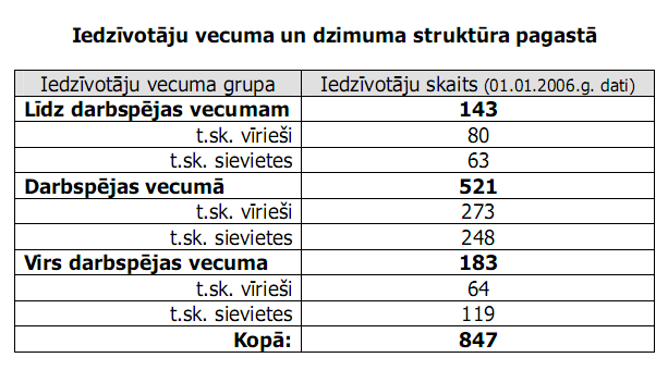 Age structure of the population of Zalve Parish, Latvia.